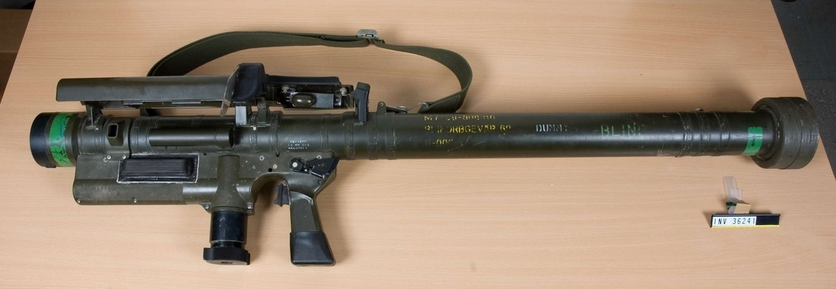 The General Dynamics FIM-43 Redeye was a man-portable surface-to-air missile system. It used infrared homing to track its target. Production began in 1968 and ended in September 1969 after about 85,000 rounds had been built - in anticipation of the Redeye II, which later became the FIM-92 Stinger. The Redeye was withdrawn gradually between 1982 and 1995 as the Stinger was deployed. The photo shows the version used by the Swedish Army between 1970 and 1992, under the designation Robot 69 or RBS 69. From the collections of the Swedish Army Museum.